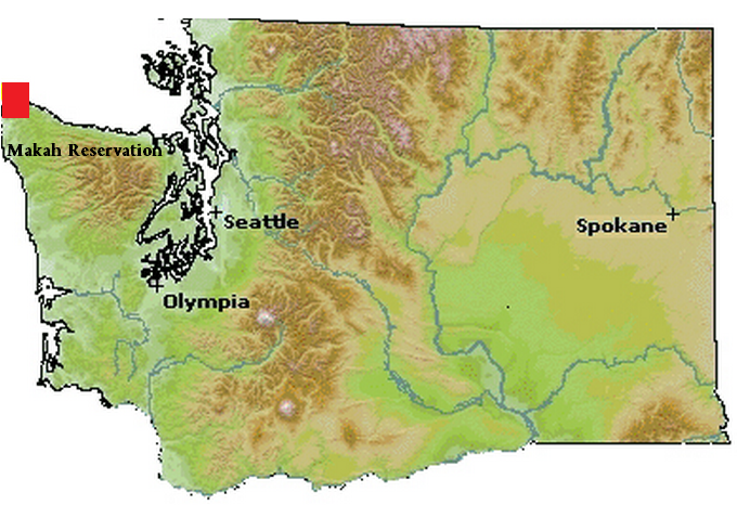 Outlines where the Makah Reservation is in Washington